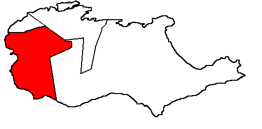 Author:Darkdragon